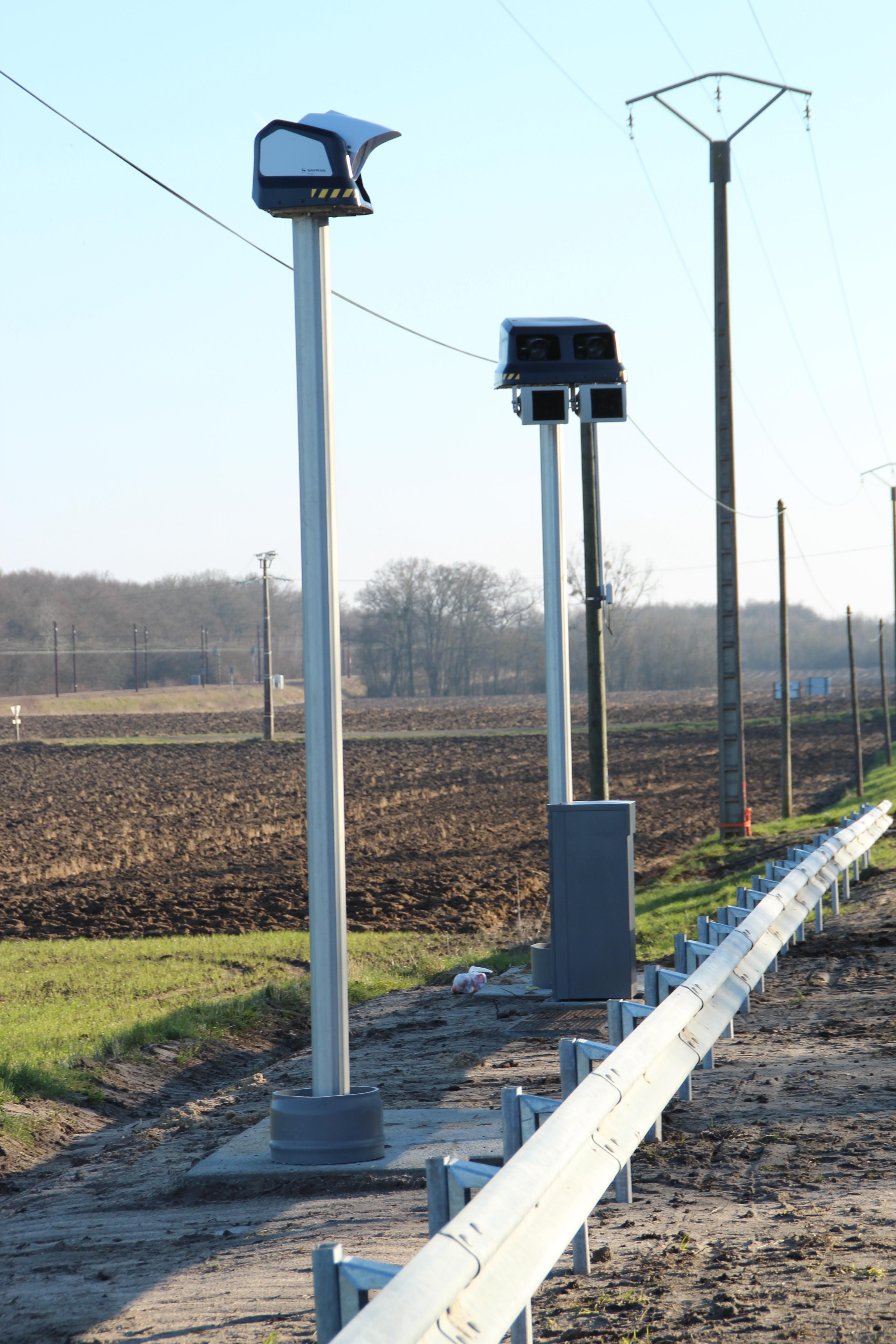 Radar on Nationale 20 road at the entrance of Chevilly, France.